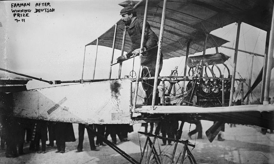 French aviator Henri Farman (26 May 1874 – 18 July 1958) after winning the Grand Prix d'Aviation offered by Henri Deutsch de la Meurthe in a Voisin biplane at Issy-les-Moulineaux, Paris, France. The original French caption of the photograph states: "Grand Prix d'Aviation. — Henri FARMAN après avoir bouclé le kilomètre en 1' 28" et gagné le Grand-Prix de 50,000 fr. se dispose à faire un tour d'honneur (13 janvier 1908). ND Photo." ("Grand Aviation Prize. — Henri FARMAN, after completing a kilometre in 1 minute 28 seconds and winning the Grand Prize of 50,000 francs, is prepared to do a lap of honour (13 January 1908).")